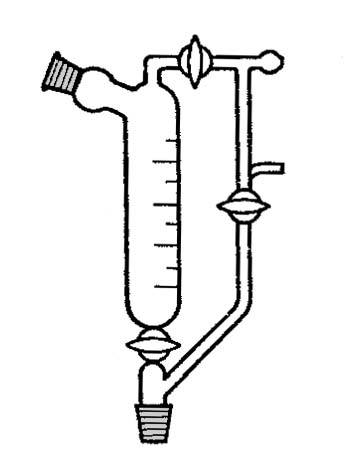 Forshtoss Anshutz-Tile Форштосс Аншютца-Тиле